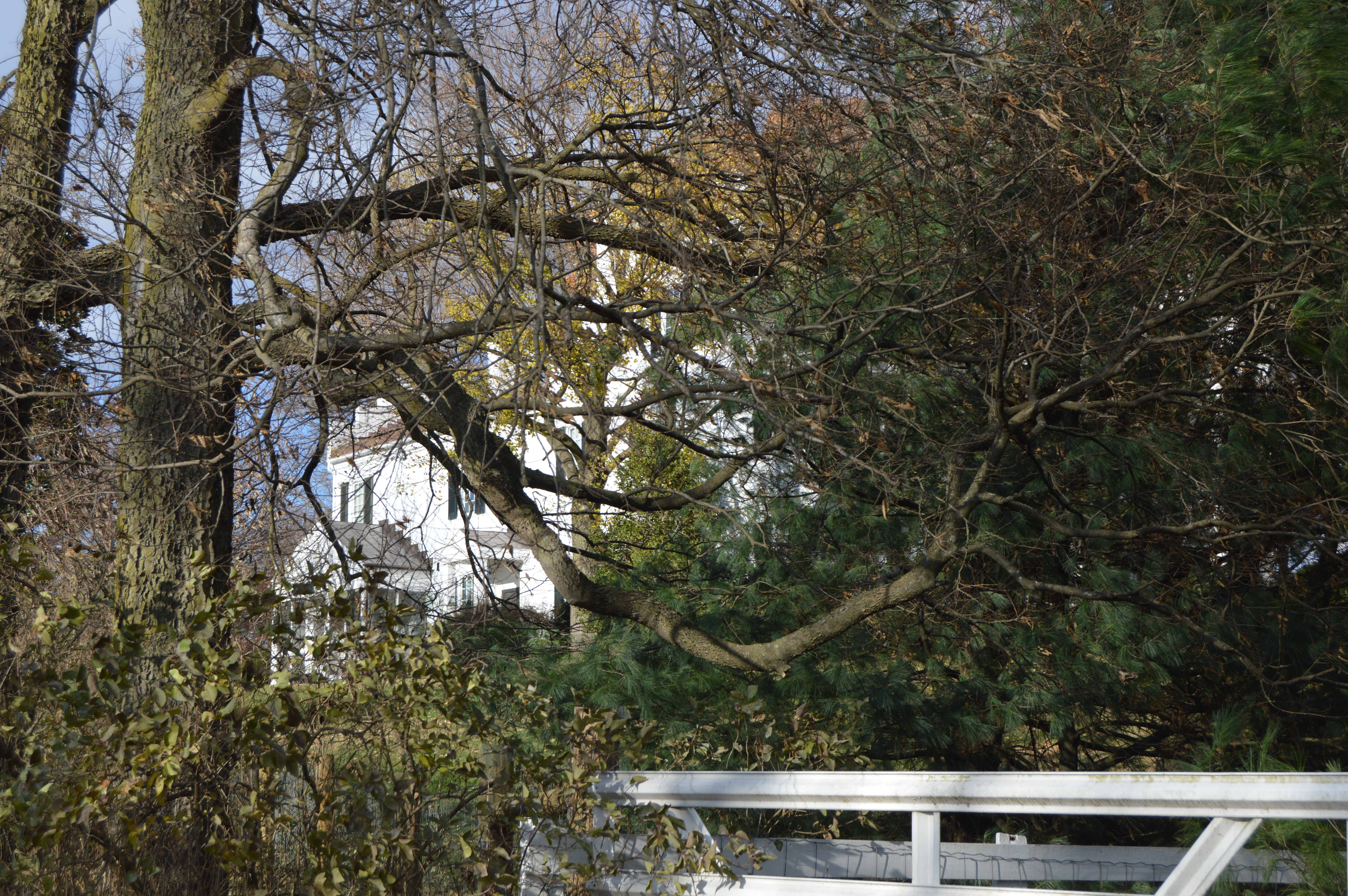 Through-the-trees view of the main house at the Bogota farm complex, located at 5375 Lynnwood Road northeast of Port Republic in Rockingham County, Virginia, United States. Built in 1845, the farmstead is listed on the National Register of Historic Places.